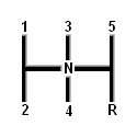 I am the author of this image. Made with Microsoft Paint.